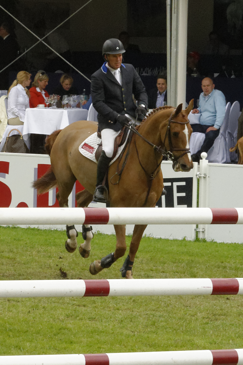 Internationales Pfingstturnier Wiesbaden 2013 The making of this document was supported by the Community-Budget of Wikimedia Germany.